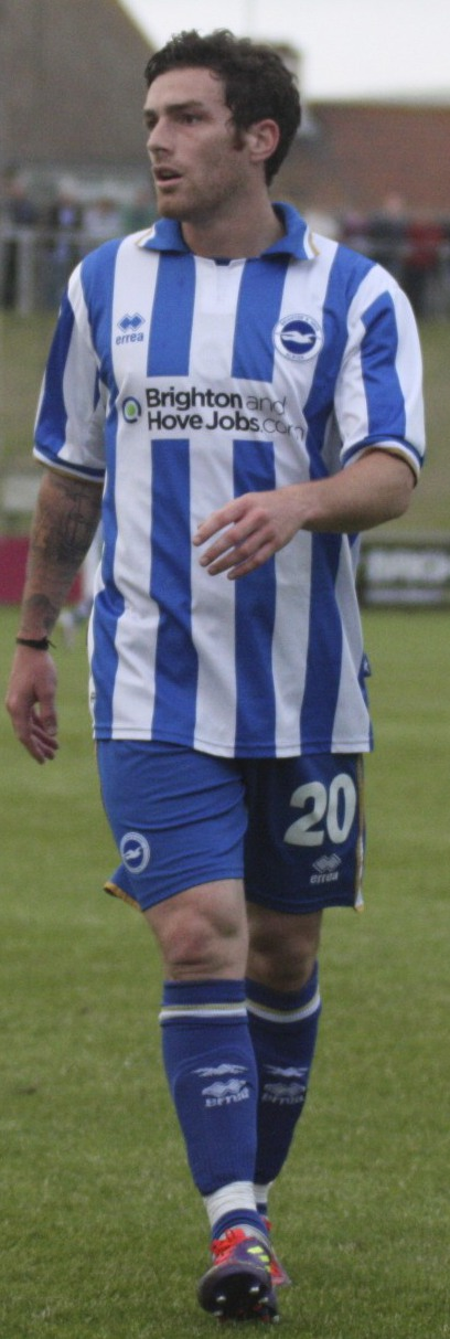 Romain Vincelot, player of Brighton & Hove Albion